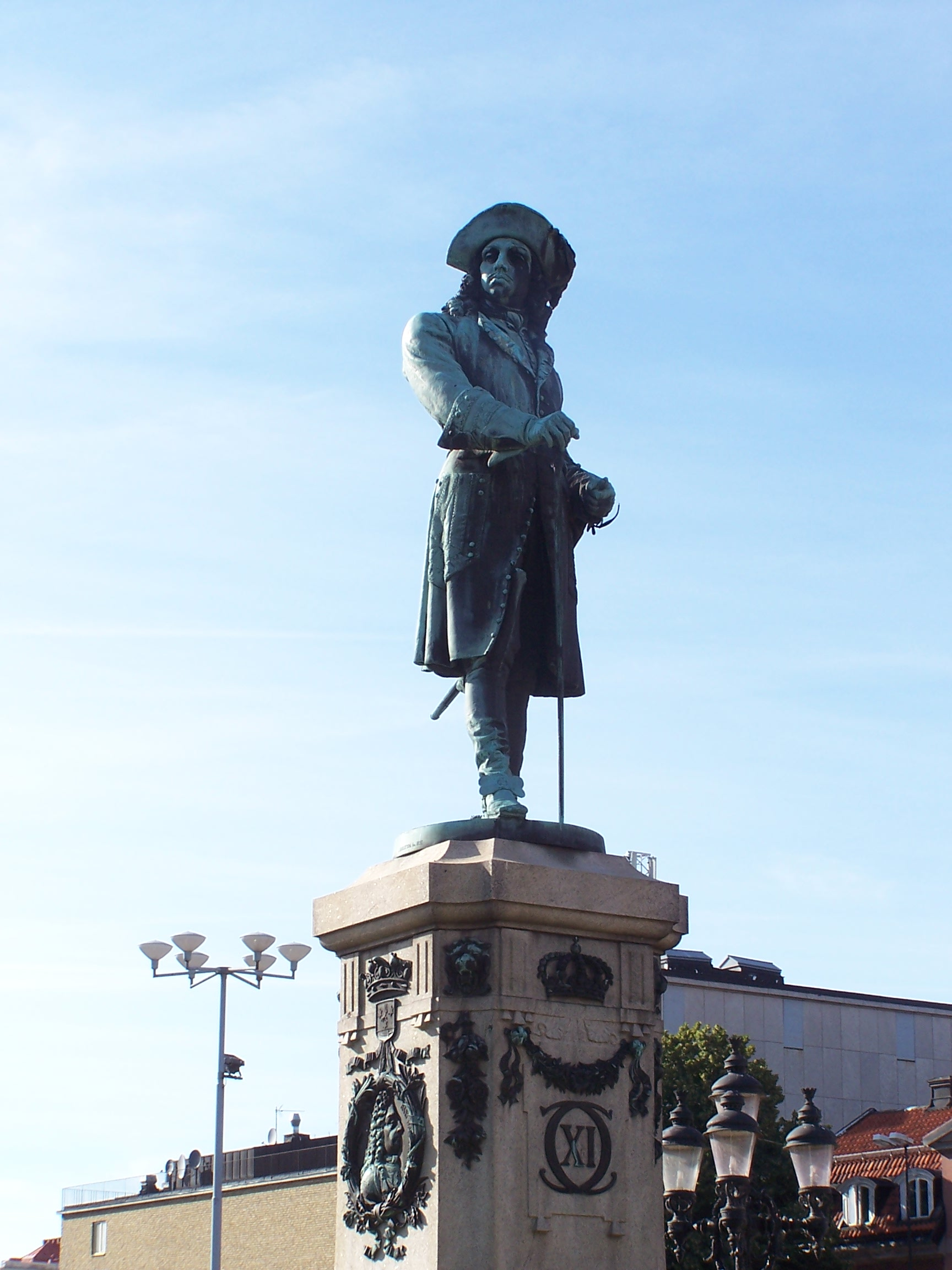 The swedish king Charles XI, founder of Karlskrona) statue in Karlskrona build in 1897.